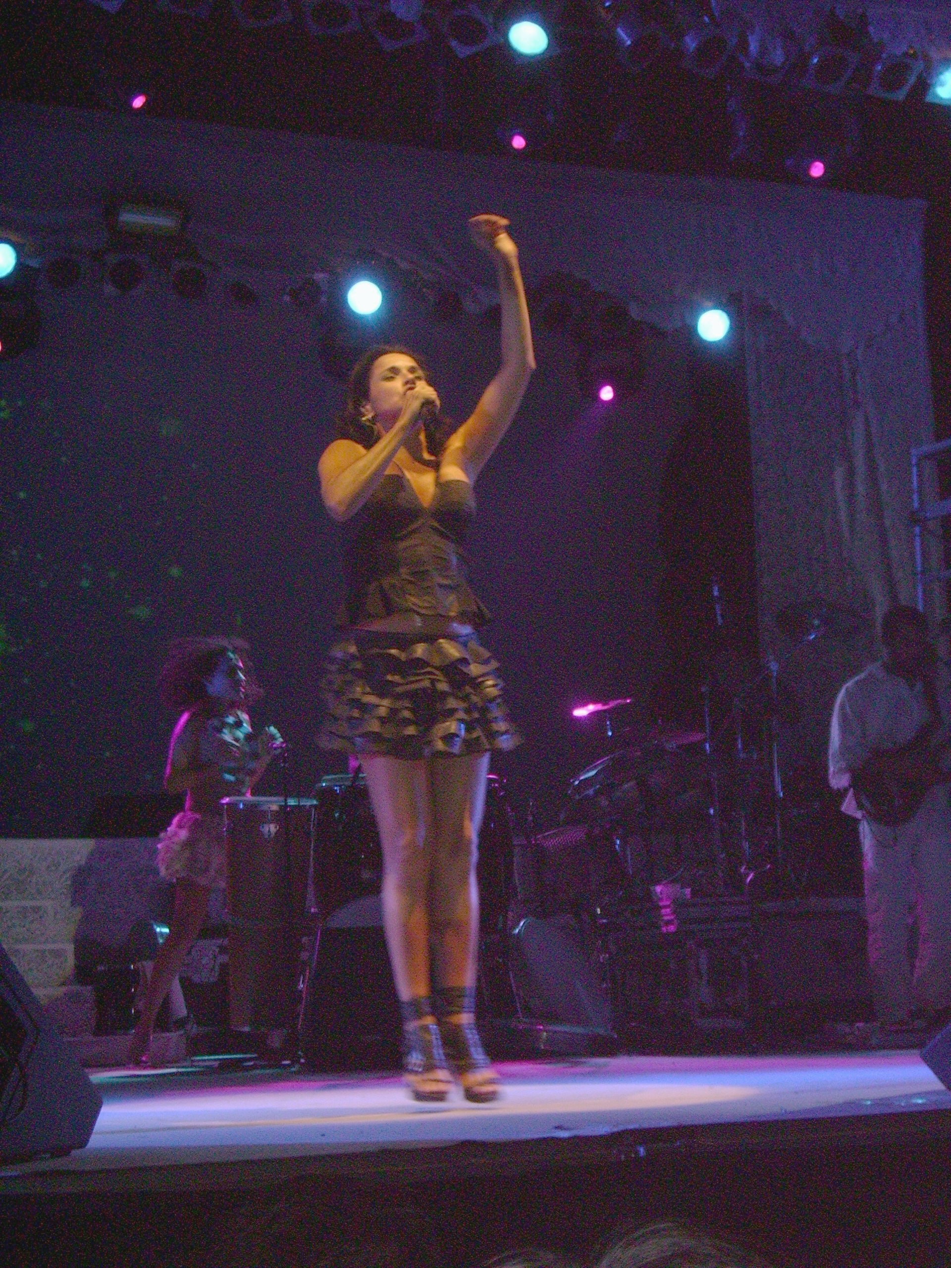 Daniela Mercury live at Praia de Santa Cruz, Portugal. Summer 2005